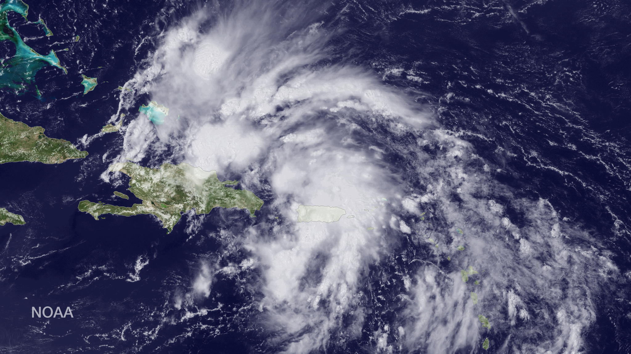 Shower and thunderstorm activity had increased during the previous few hours in association with a small area of low pressure (Invest 96L) located just north of the Mona Passage between Puerto Rico and the Dominican Republic. Satellite wind data and preliminary reports from an Air Force Reserve Hurricane Hunter aircraft indicated that the circulation associated with the low was poorly defined. This image was taken by GOES East at 1745Z on August 22, 2014.